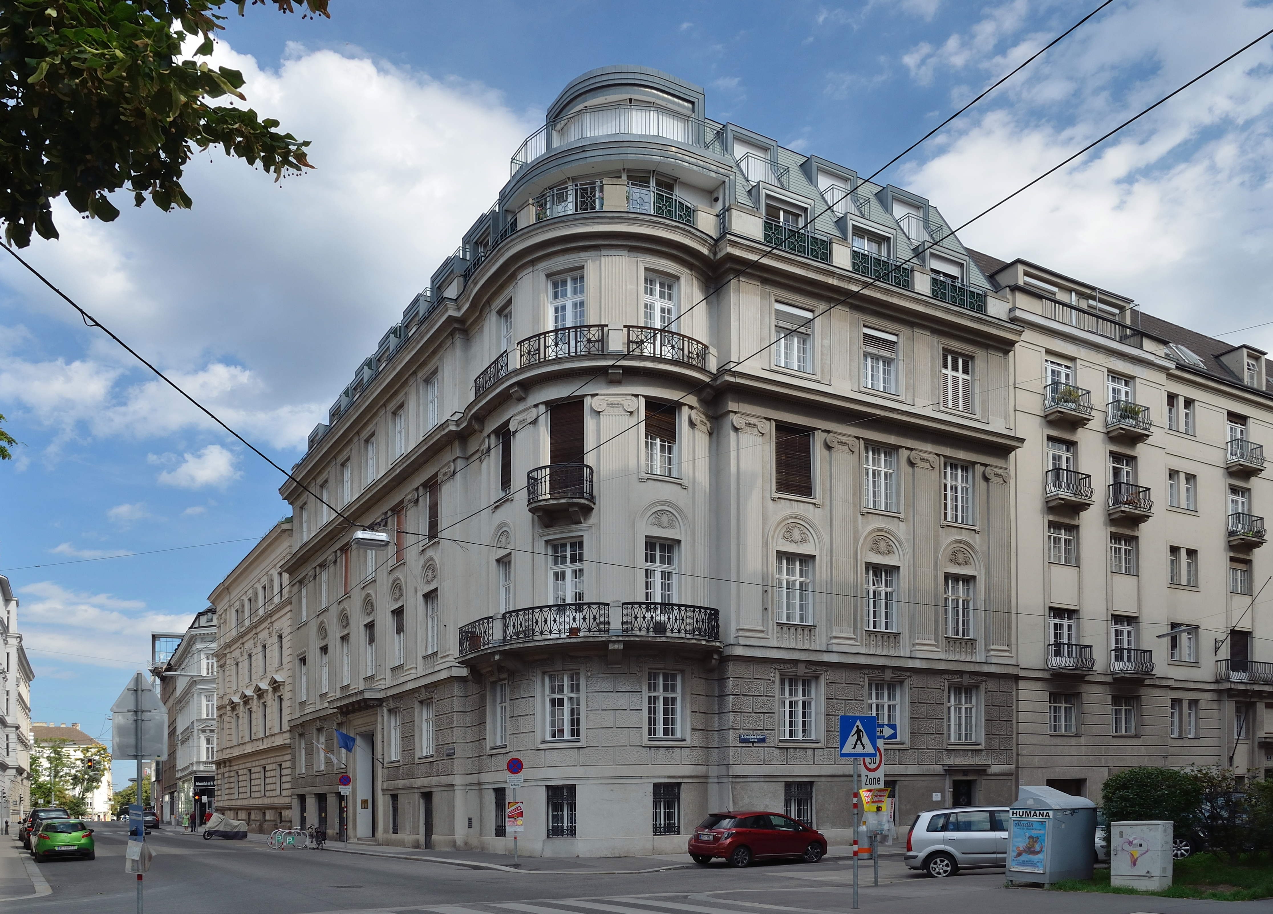 The house Neulinggasse 37, Landstraße, Vienna, is the seat of the embassy of Cyprus in Austria.